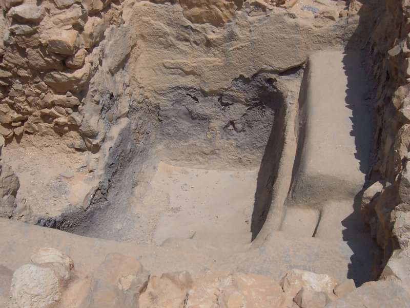 Israel - The Mikve of Masada fortress